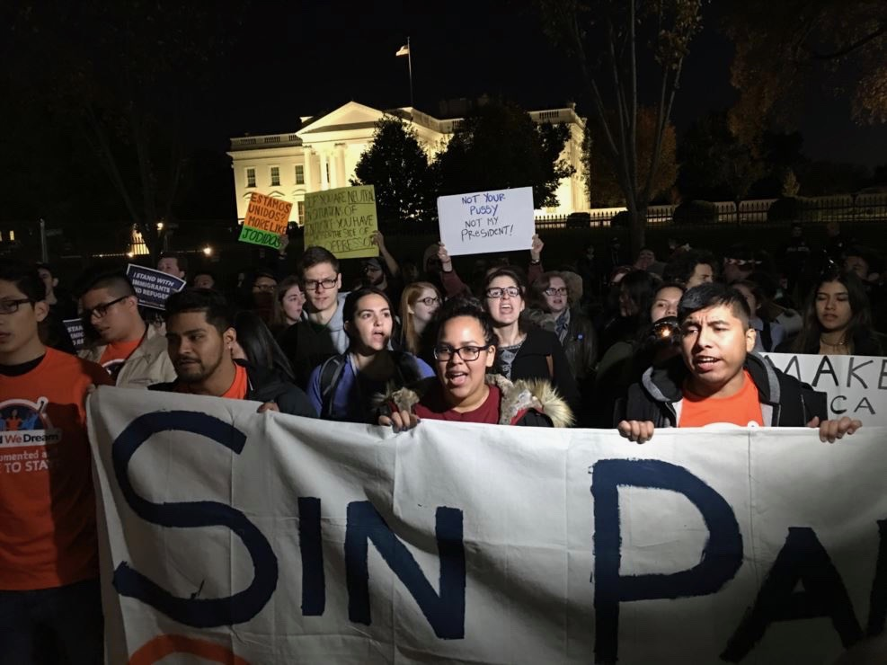 Anti-Trump protesters gathered near the White House in Washington, D.C., Nov. 10, 2016. (Jesusemen Oni/VOA)